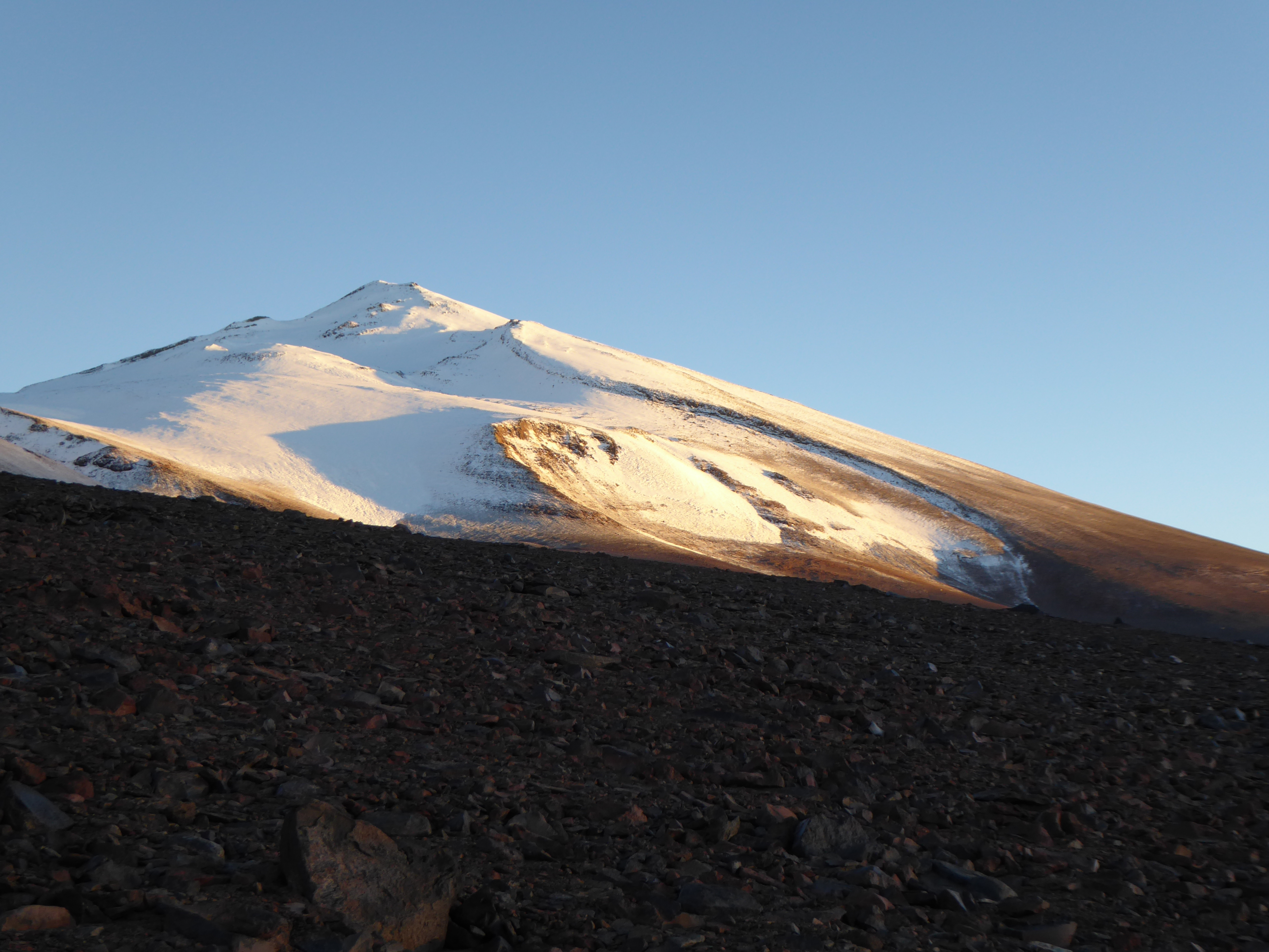 El Ermitaño seen from above the Laguna Verde